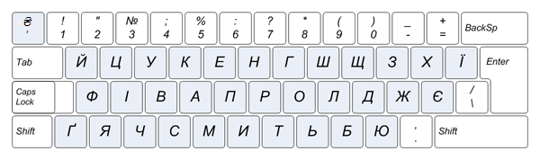 Ukrainian keyboard layout in Windows Vista